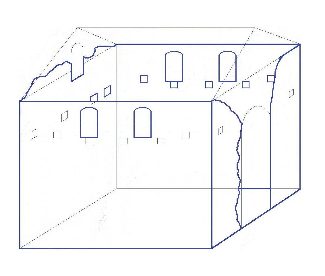 RocBaron - Old Church in Ruins - Scheme for attempt of visualization